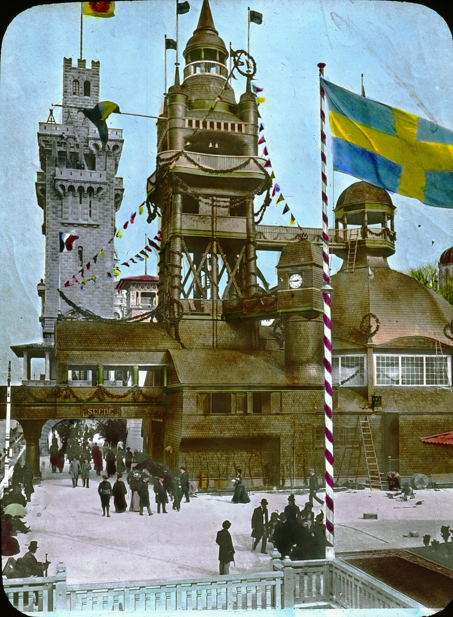 Original description: Paris Exposition: Swedish Pavilion, Paris, France, 1900. The Pavilion of Sweden located on the western portion of the Quai des Nations. (Hand-)colored lantern slide, original size 3.25×4 in.